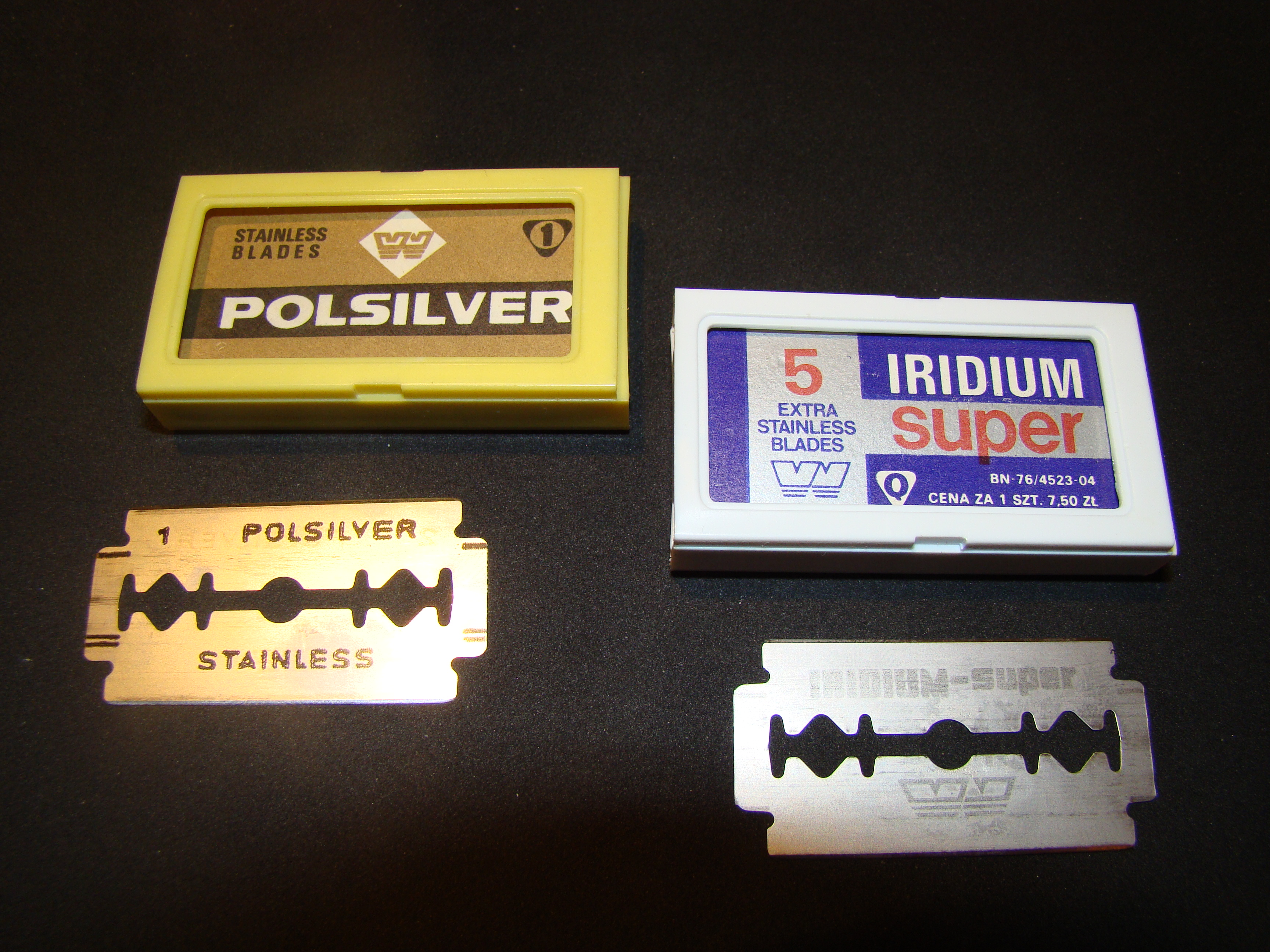 Razor blades - Wizamet